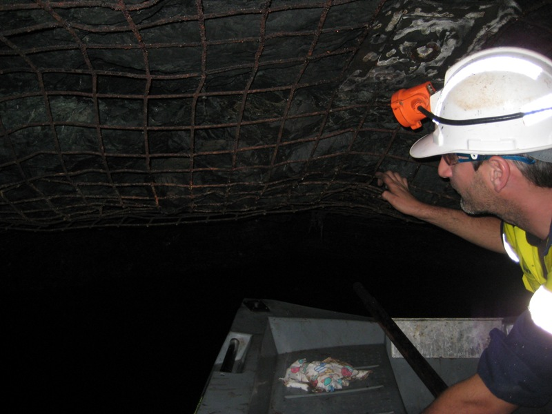 Picture of a cap lamp on a hard hat as used in underground mining operations